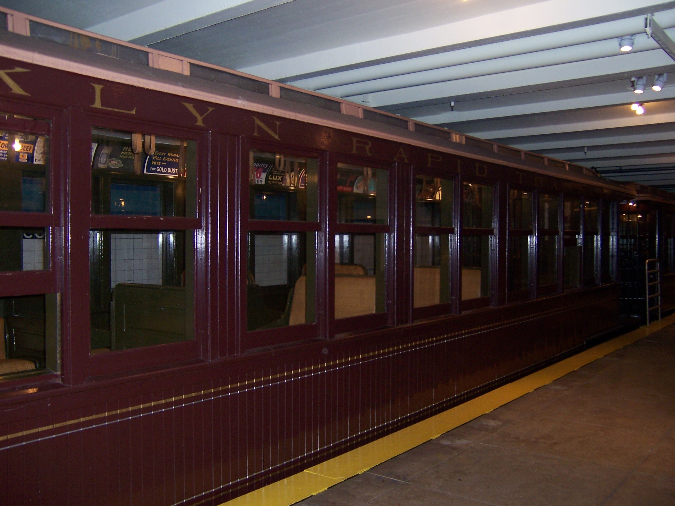 Taken by self at New York Transit Museum